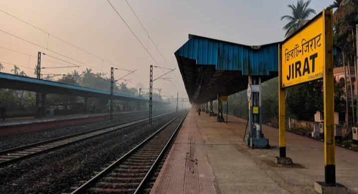 The first sunshine at Jirat Railway Station